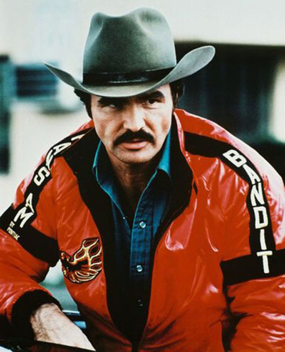 The Red Smokey and the Bandit jacket used in the movie Smokey and the Bandit 2 staring Burt Reynolds was designed and manufactured by Jim Watkins in 1977 for Burt Reynolds in Los Angeles California. is a LA based company started by Jim Watkins and is currently operated by Jim Watkins and his son Jimmy Watkins. The father and son team also designed a Black Bandit jacket for the first movie but Hal Needham the director decided that the jacket washed Burt out against the black interior of the Trans Am car and they opted for the bright red shirt. Jim Watkins and Jimmy Watkins have designed for Michael Jackson, Clint Eastwood, Musicians, US Presidents, and more stars then Bob Mackie (((People Magazine(( 1978) and Jim Watkins also designed the Silver Firebird Jacket used in the movie Hooper. Jim Watkins designs flooded Hollywood from 1966 to 1992 and suck cult movie like Fast Times at Ridgemont High, The Warriors, Moscow on the Hudson, to name a few. Currently Jimmy Watkins has designed a tribute series to celebrate all the iconic designs of the father and son team.